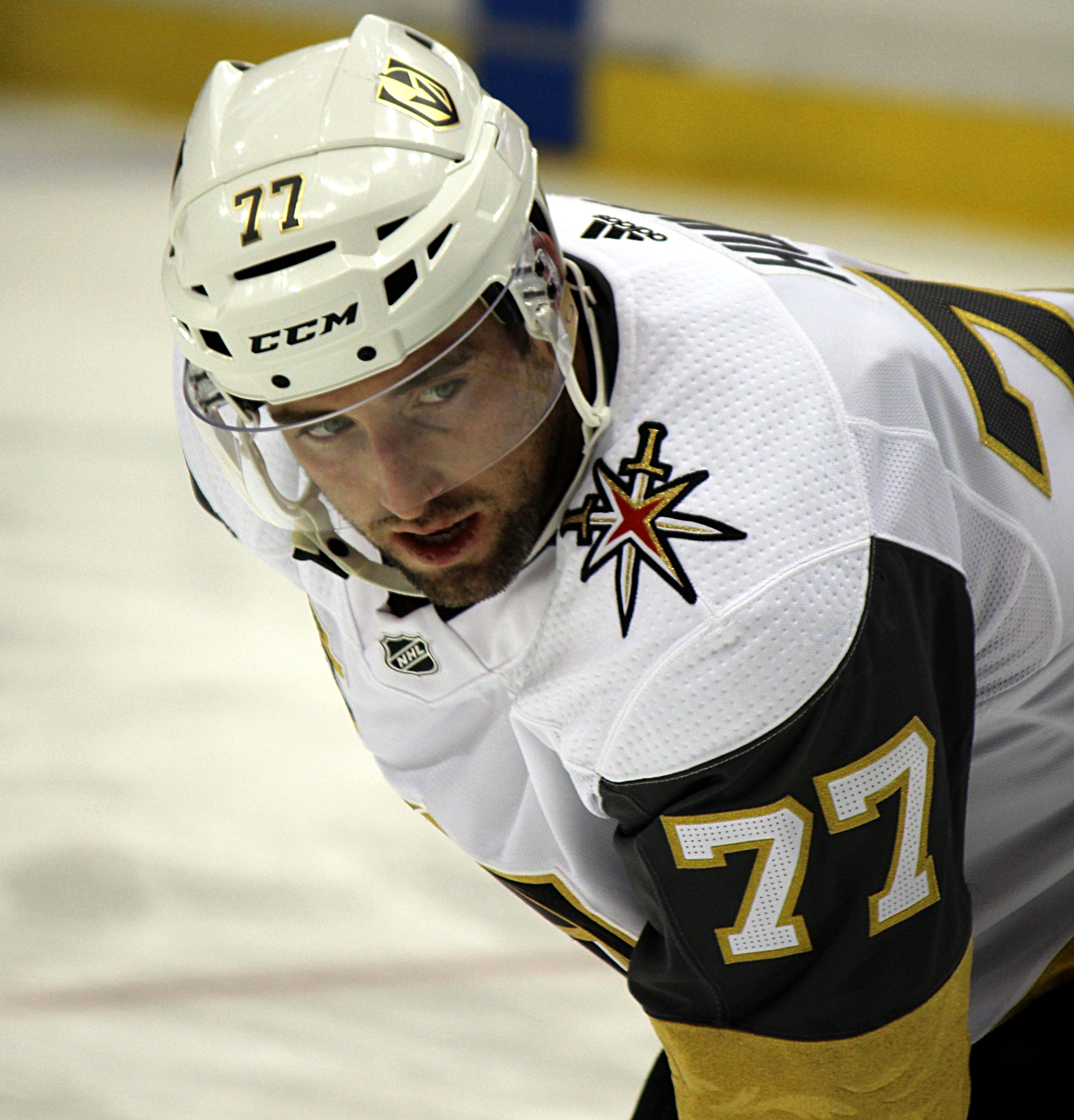 Vegas Golden Knights defenseman Brad Hunt during a game against the Pittsburgh Penguins, February 6, 2018, at PPG Paints Arena in Pittsburgh, PA.